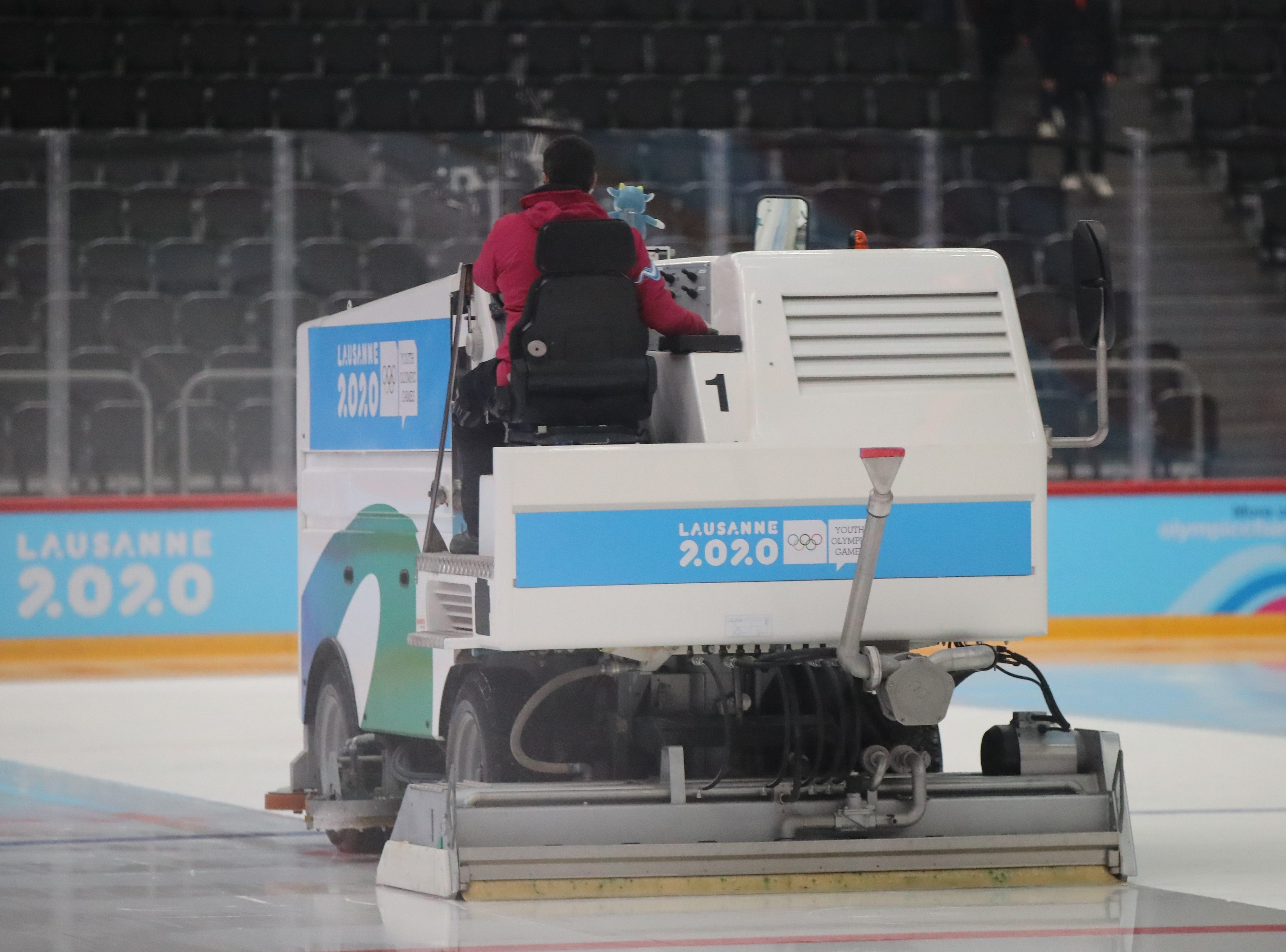 Ice hockey Women's Tournament preliminary match at the 2020 Winter Youth Olympics in Lausanne on 17 January 2020: Czech Republic vs. Switzerland.